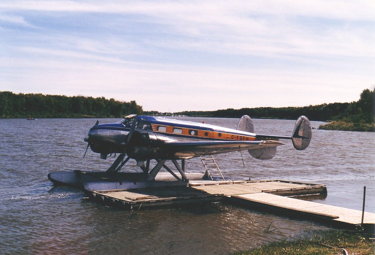 I took this photo of Beech 18 C-FSFH on floats in Manitoba in 1986.